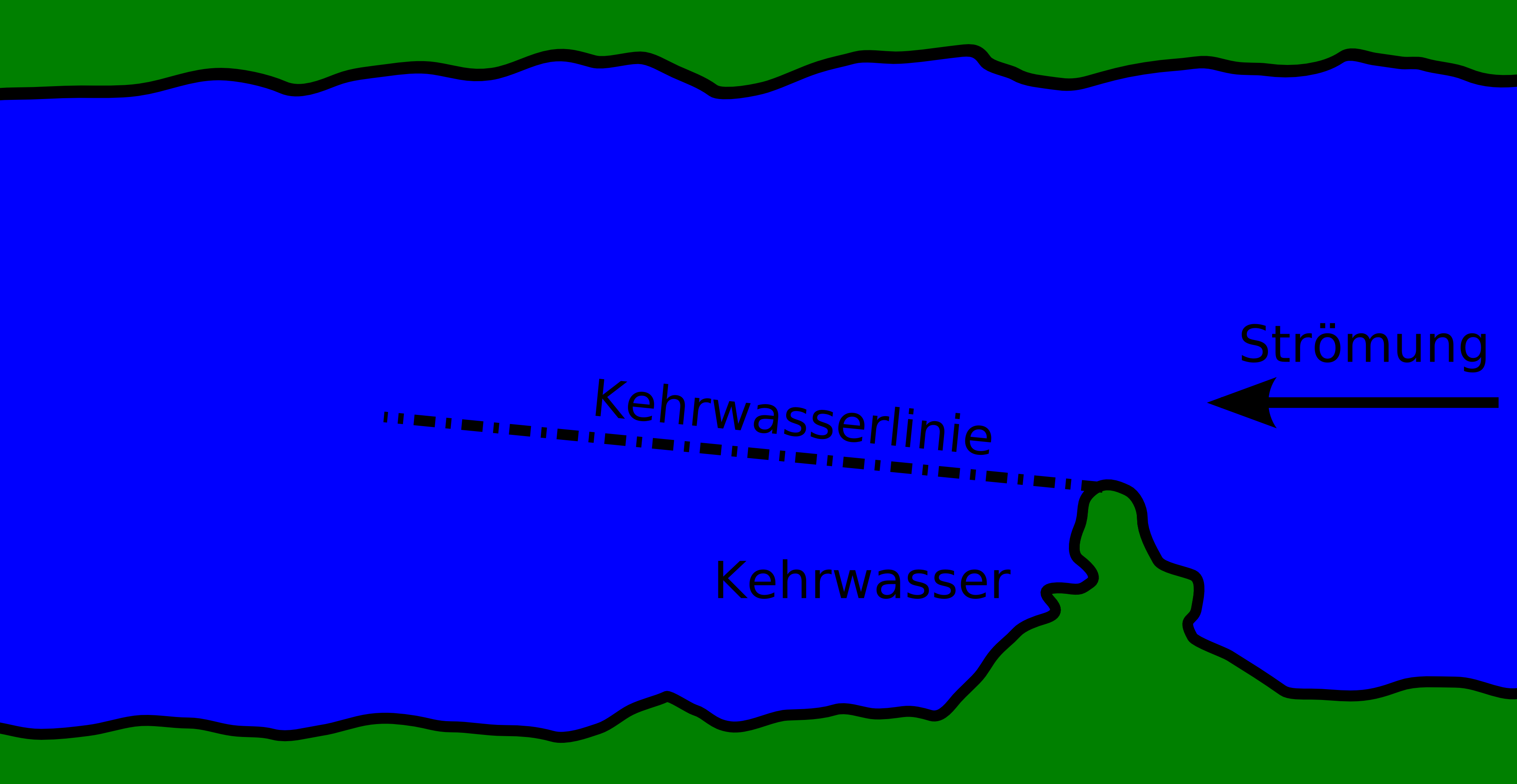 Eddy on a river